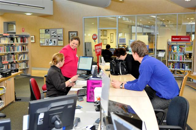 Burnside Library Information Desk